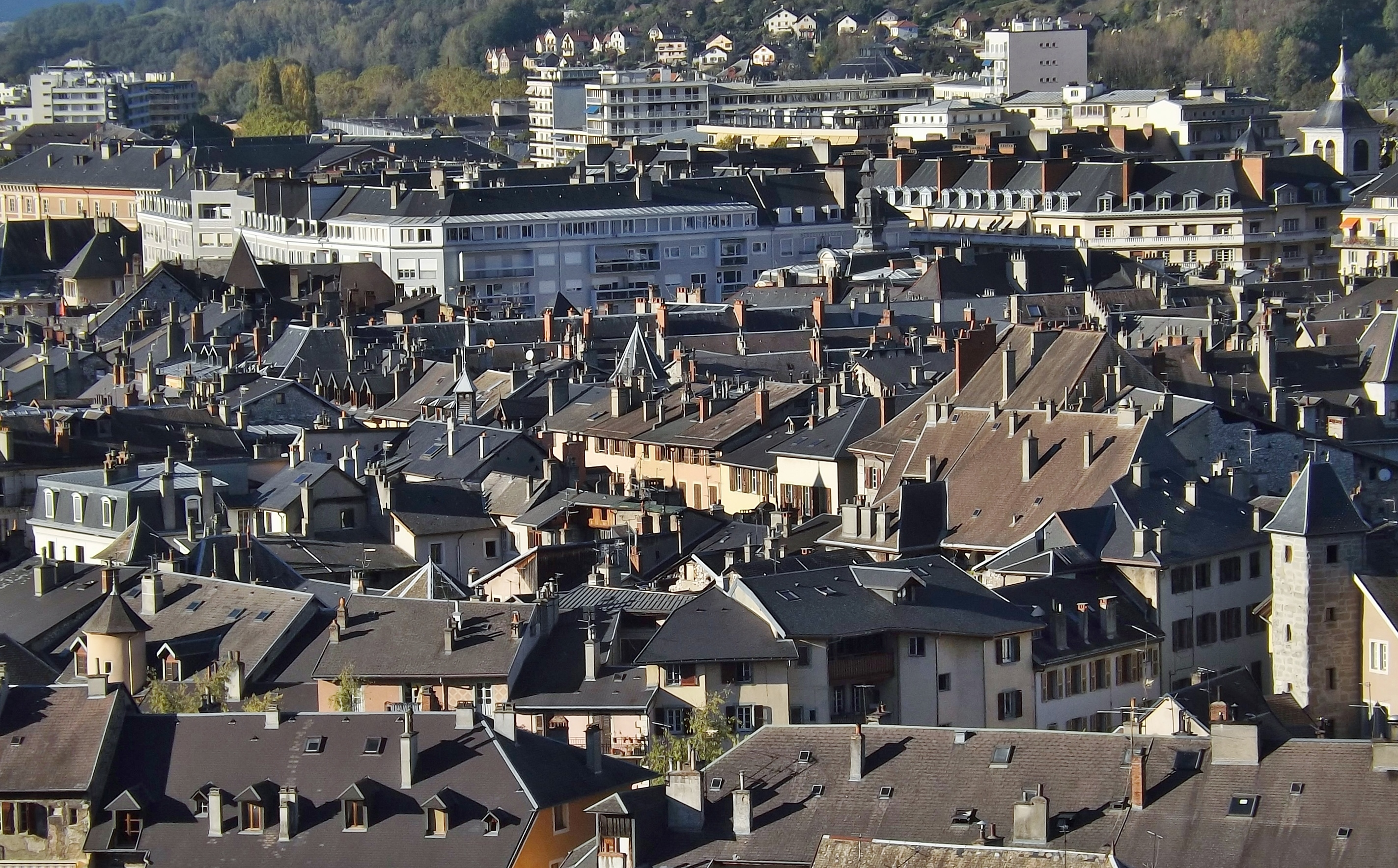 Sight on the roofs of the old town of Chambéry center, along the place Saint-Léger at the center, in Savoie, France.